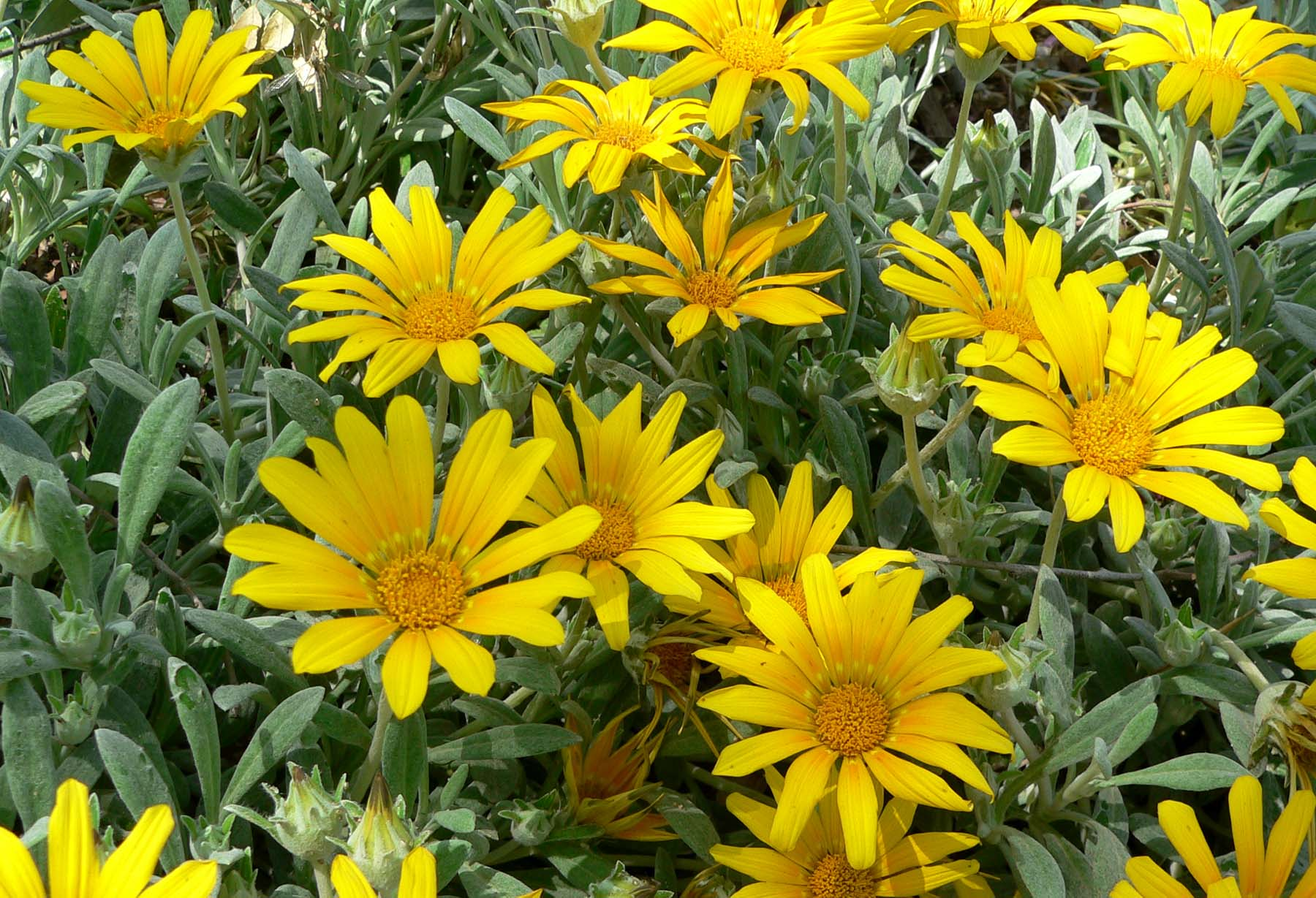 Photo of Gazania rigens 'Sun Gold' at the Desert Demonstration Garden in Las Vegas, Nevada